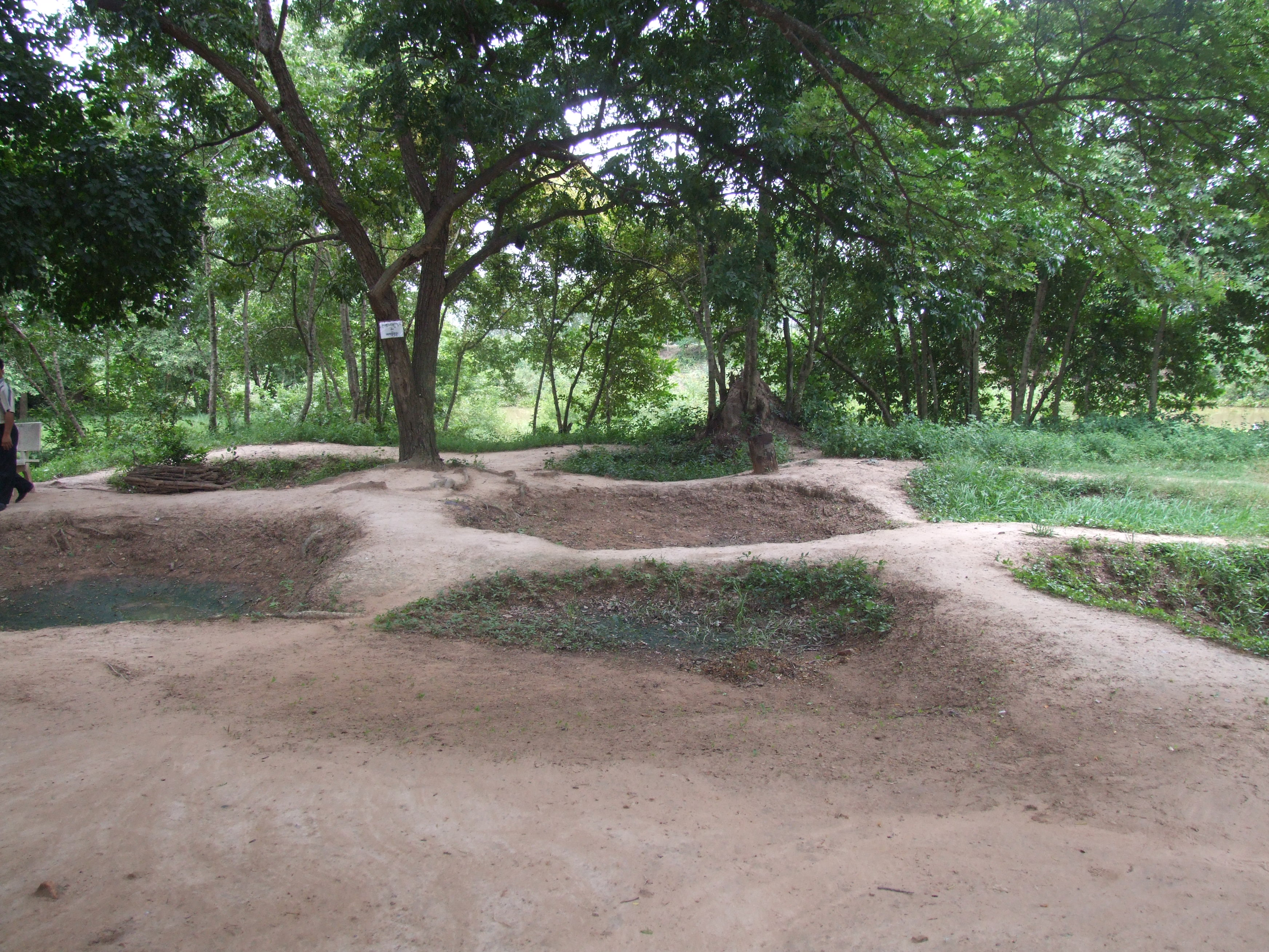 Mass graves at Choeung Ek, near Phnom Penh, Cambodia